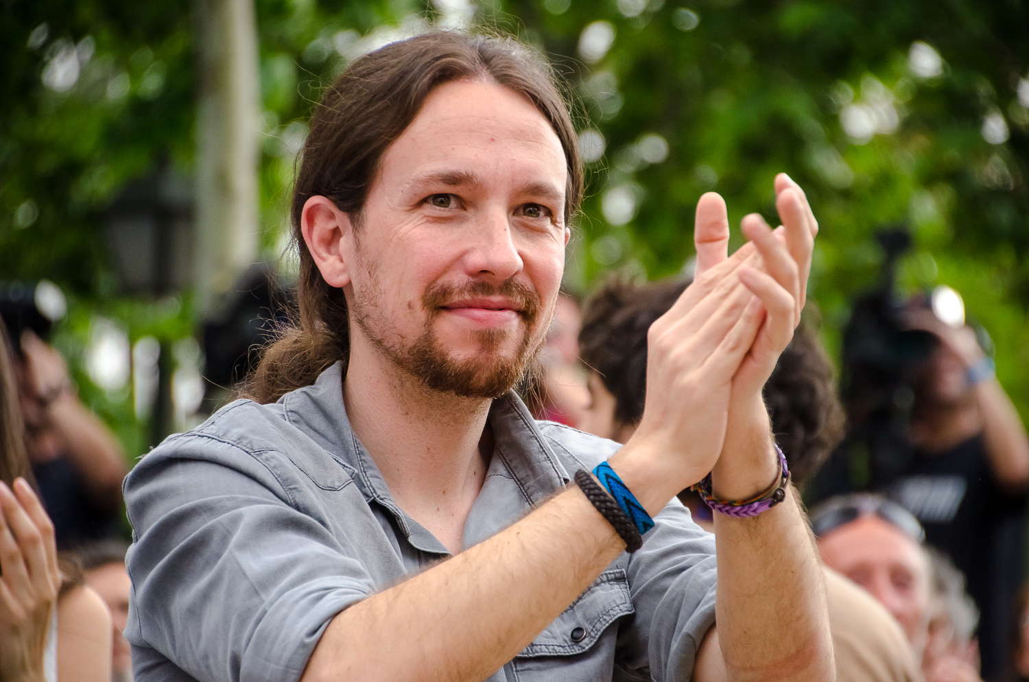 Pablo Iglesias during the election campaign of May 2015.